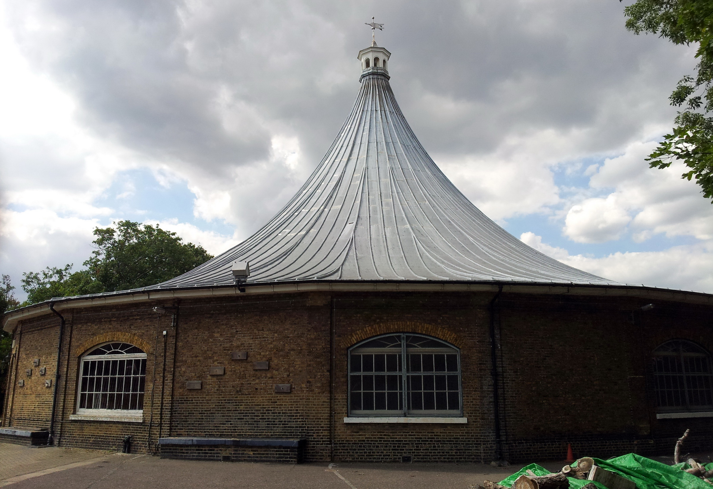 View of the Rotunda, designed by John Nash for St. James's Park in 1814 and moved to Woolwich Common in 1820 to serve as the Royal Artillery Museum (until 2001; now a boxing arena for nearby troops), Green Hill, Woolwich, Southeast London.